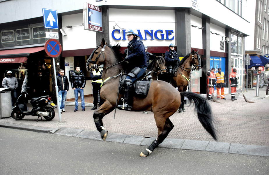 Amsterdam, Holland. Photo by Gary Mark Smith.